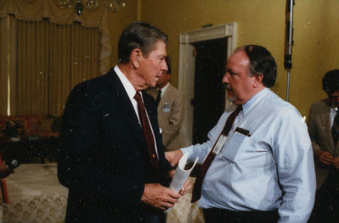 President Ronald Reagan, Nancy Reagan, Donald Regan, Roger Ailes (4-13)(Not in all Photos) President Ronald Reagan and Nancy Reagan participating in a rehearsal for their upcoming Address to the Nation on the National Campaign against Drug Abuse President Ronald Reagan, Nancy Reagan, Donald Regan, Roger Ailes, Jim Kuhn (16-21) (Not in all Photos) President Ronald Reagan and Nancy Reagan participating in a rehearsal for their upcoming Address to the Nation on the National Campaign against Drug Abuse